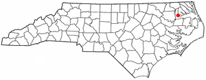 Category:North Carolina Dot Maps